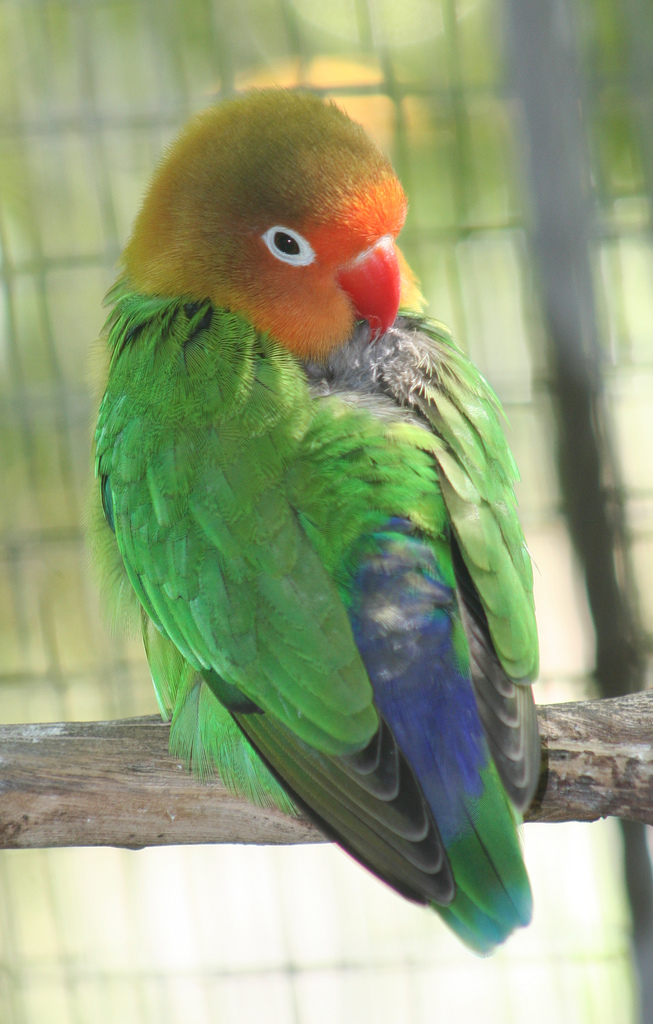 Fischer's Lovebird, (Agapornis fischeri) pet showing its back and blue rump